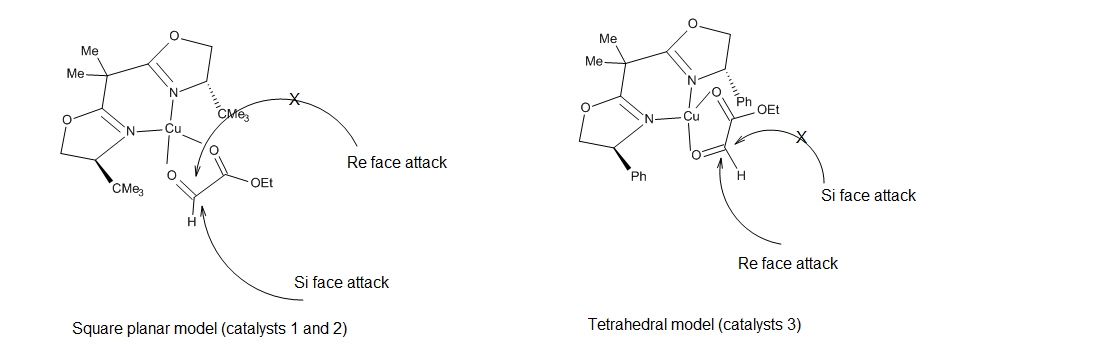 figure 17